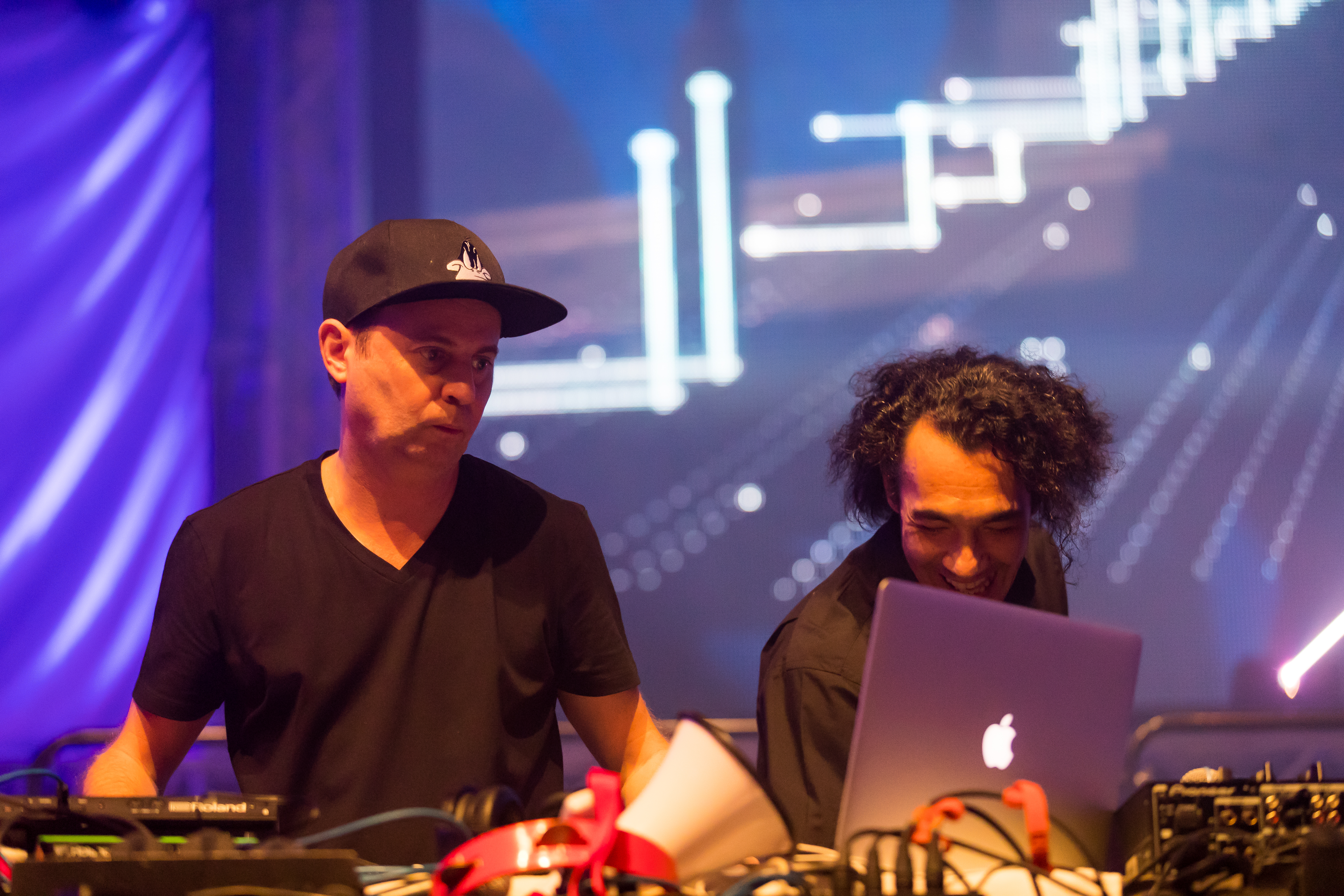 Interactive during Sunshine Live - 90er Live on Stage at Maimarkt Halle, Mannheim, Baden Württemberg, Germany on 2016-11-27, Photo: Sven Mandel DJ Falk, E-Rotic, Twenty 4 Seven, Rednex, Vengaboys, Masterbox feat. Beatrix Delgado, 2 Brother on the 4th Floor, 2 Unlimited, Interactive, Charly Lownoise, Marusha